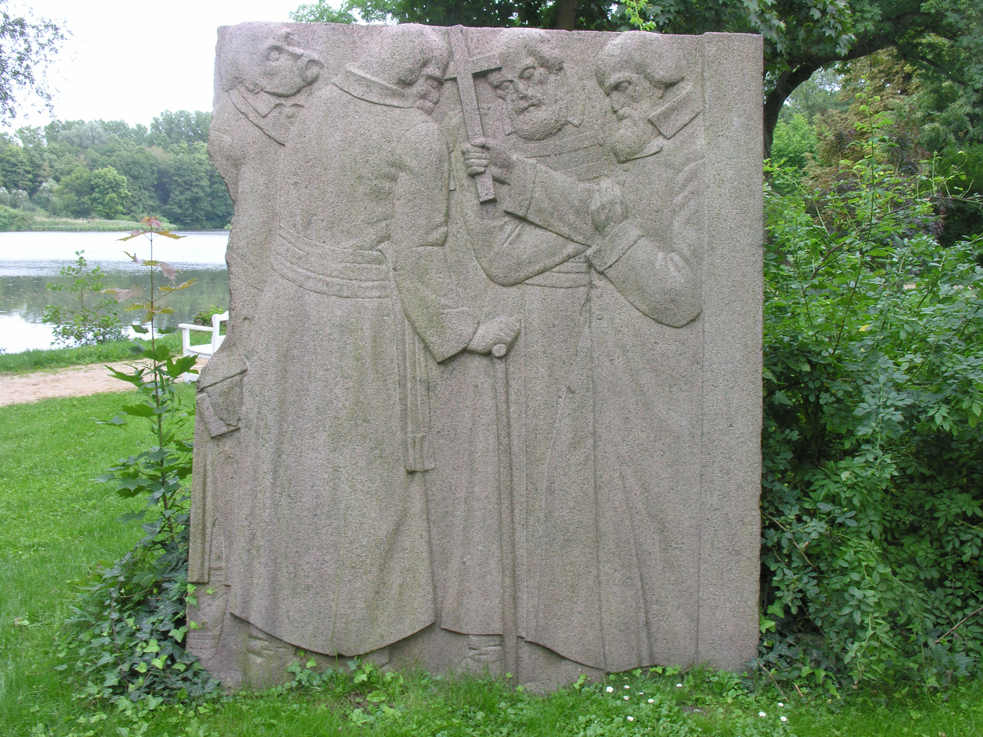 Fragment niezrealizowanego pomnika Adama Mickiewicza w Wilnie. Scena z "Dziadów" - Droga na cmentarz. Rzeźba w parku pałacowym w Radziejowicach